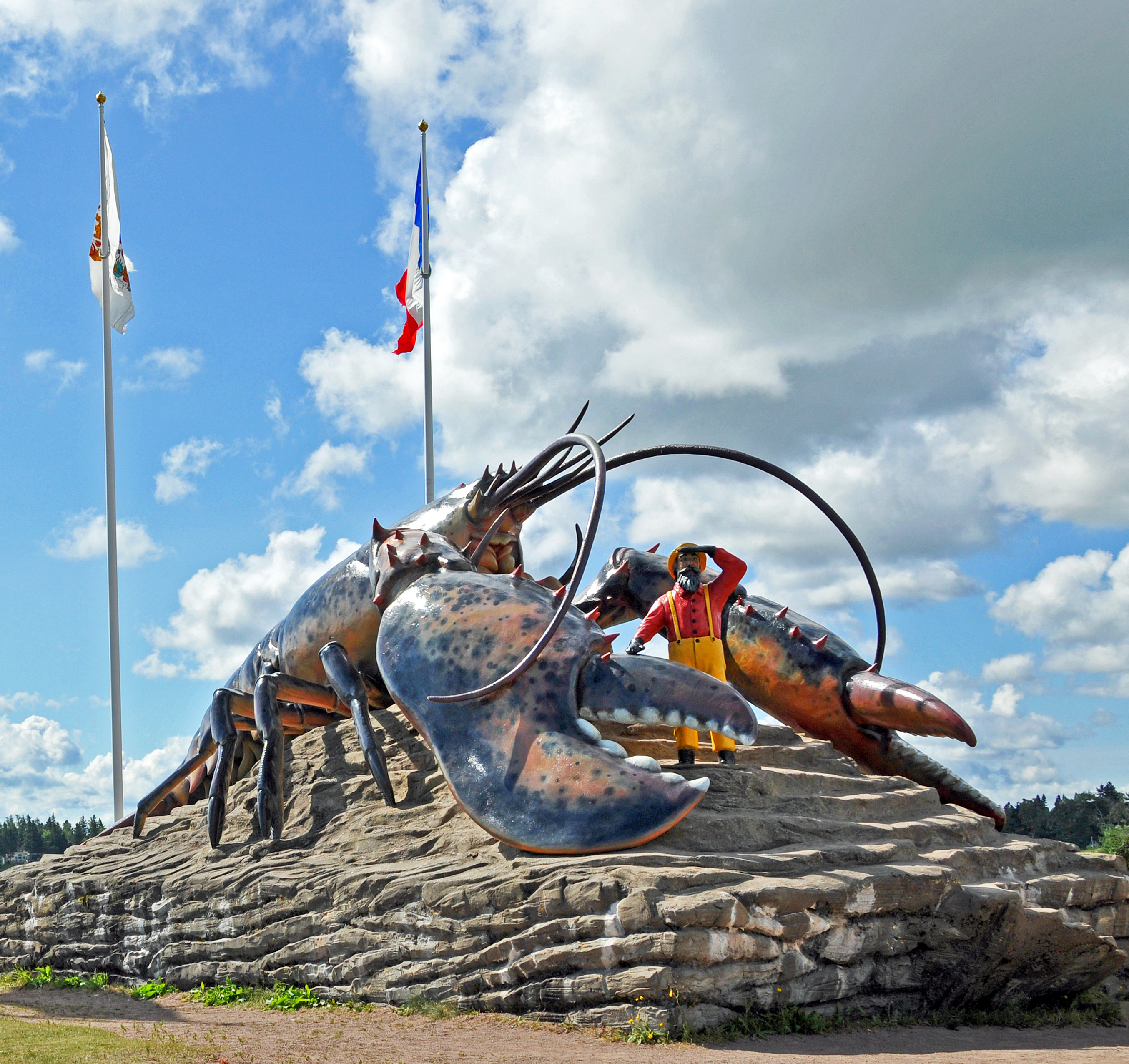 PLEASE, no multi invitations in your comments. DO NOT FEEL YOU HAVE TO COMMENT.Thanks. Commissioned by the Shediac Rotary Club, the World's Largest Lobster was created and constructed by the late Winston Bronnum (notable animal sculptor) of Penobsquis, New Brunswick. The sculpture, which is made of reinforced concrete and steel, measures 10.7 meters (35 feet) in length and 5 meters (16.4 feet) in height and took 3 years to complete. This masterpiece weights 50 metric tons (110,231.13 pounds) and rests on a 32 metric ton (70,547.924 pounds) perestal.